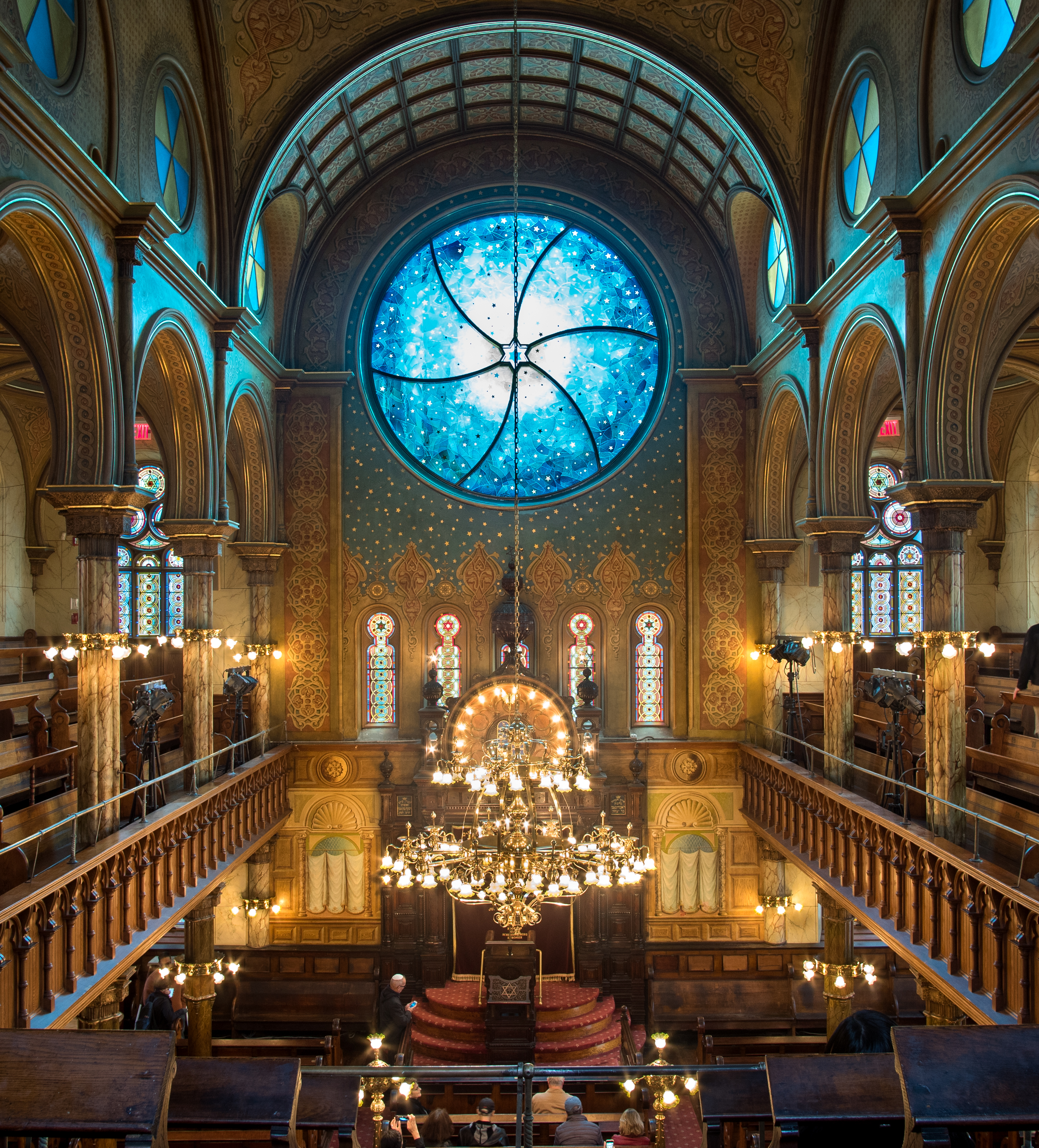 Eldridge Street Synagogue during Open House New York Weekend 2018